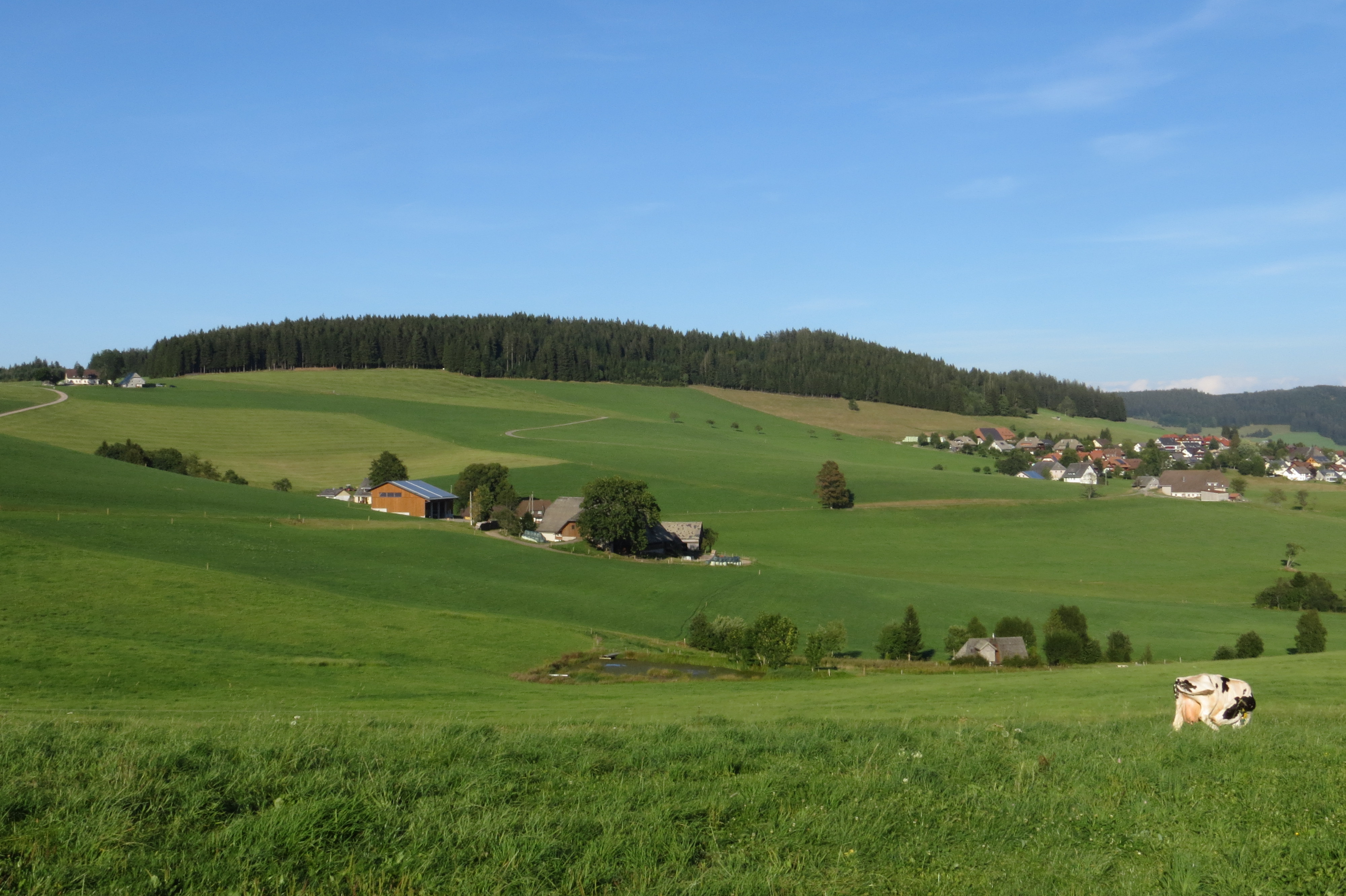 The Rossberg mountain above the village of Breitnau (r) in the Black Forest, Baden-Wuerttemberg, Germany. Seen from Hinterdorf to the SW.